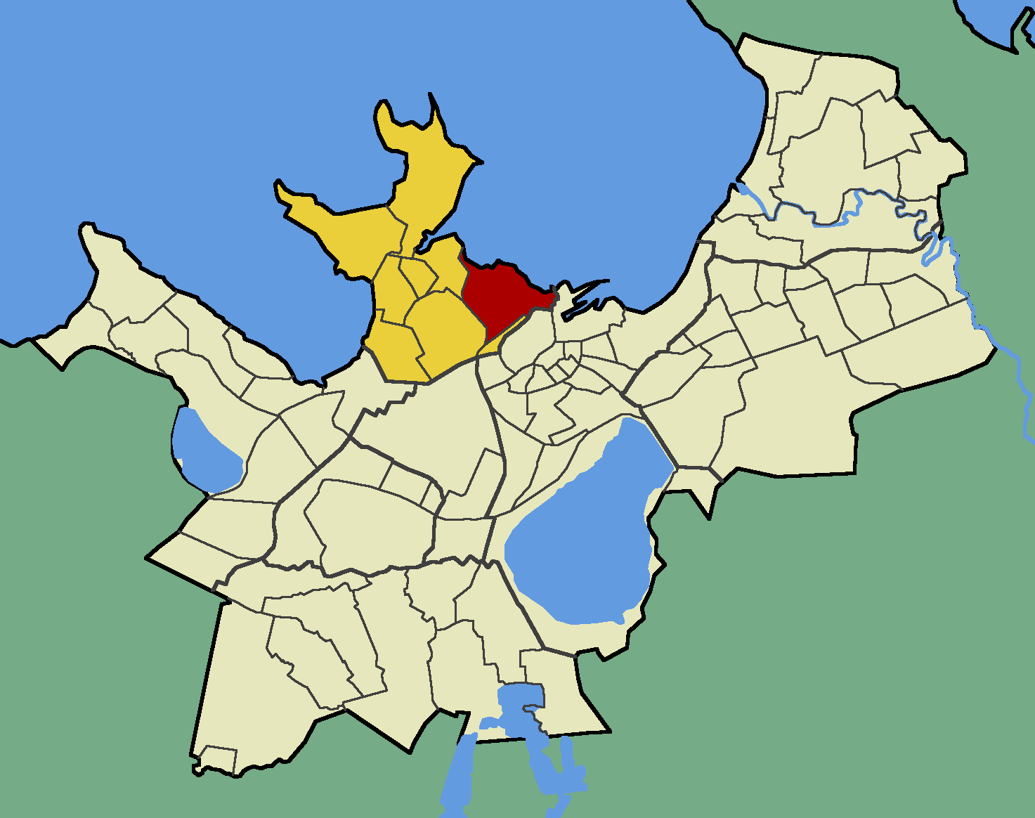 Map of Tallinn (Estonia) with borders of the quarters, Põhja-Tallinn district and Kalamaja quarter emphasised